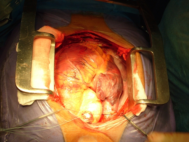 Human heart with sutures in place ready to set canulae for extracorporeal circulation